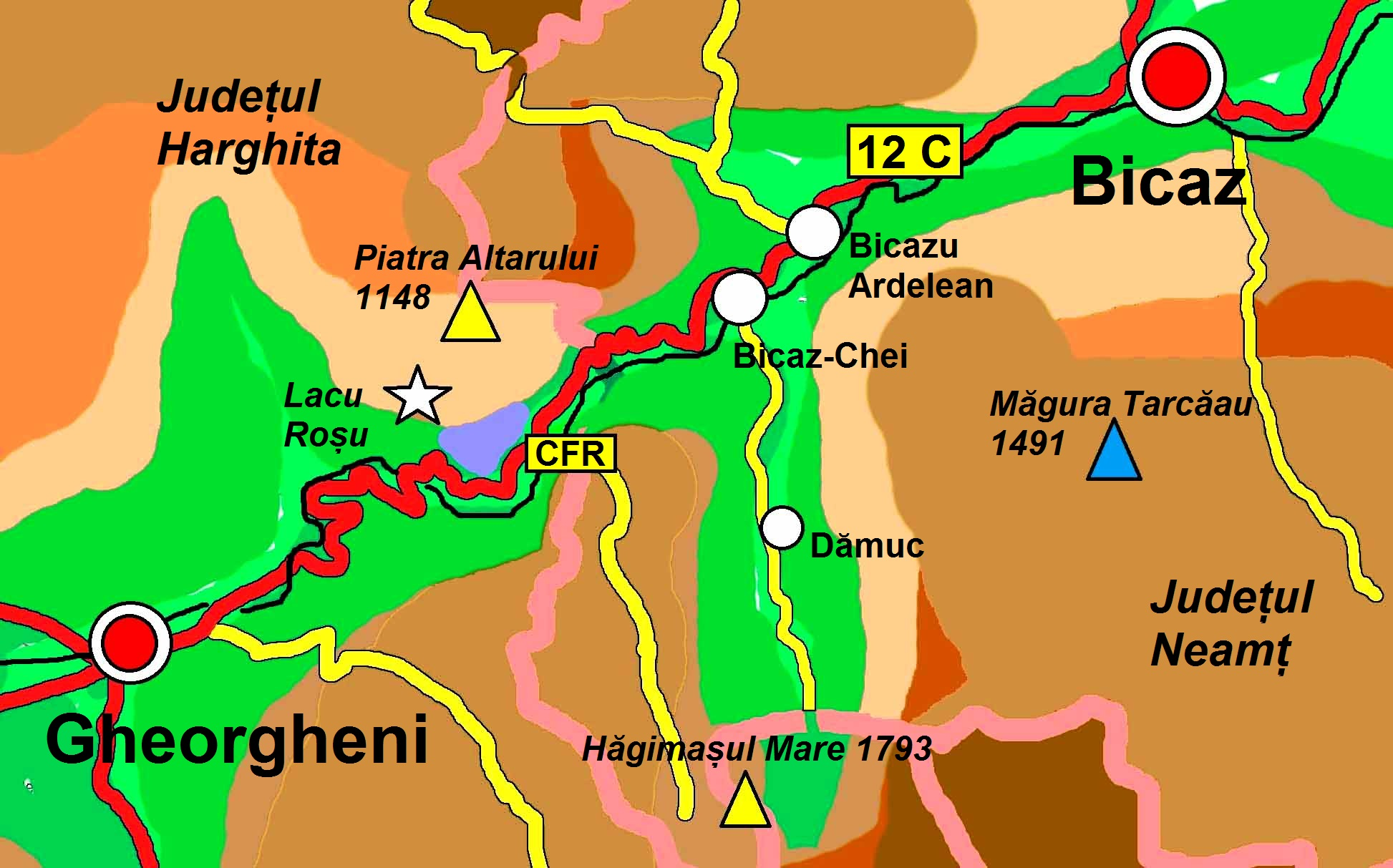 a map of Bicaz Canyon